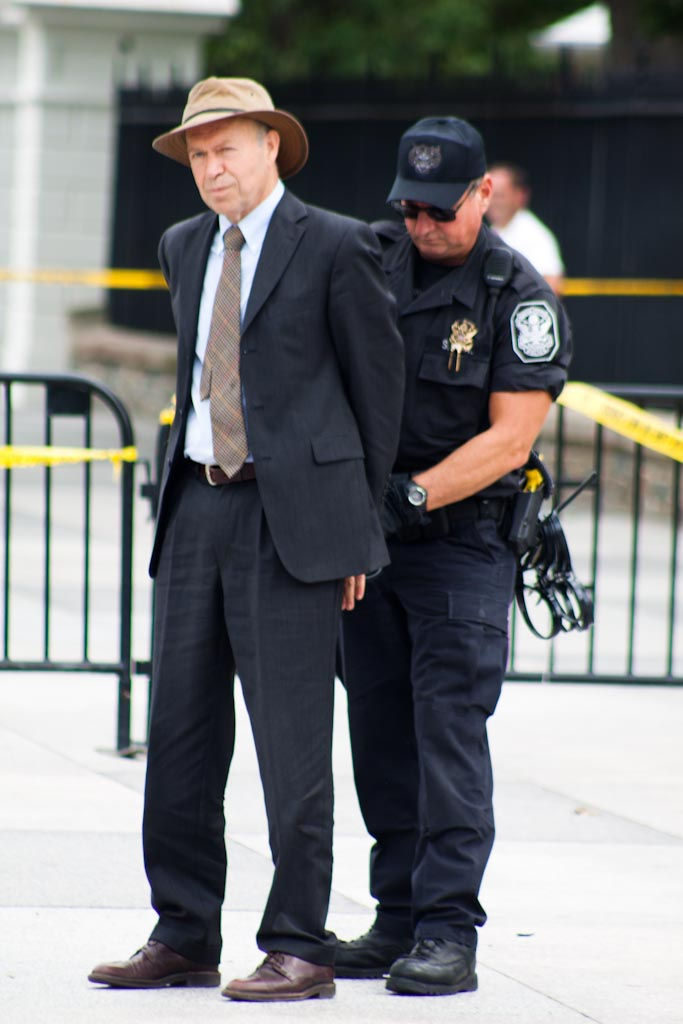 NASA Scientist James Hansen Arrested, August 29, 2011 Photo Credit: Ben Powless